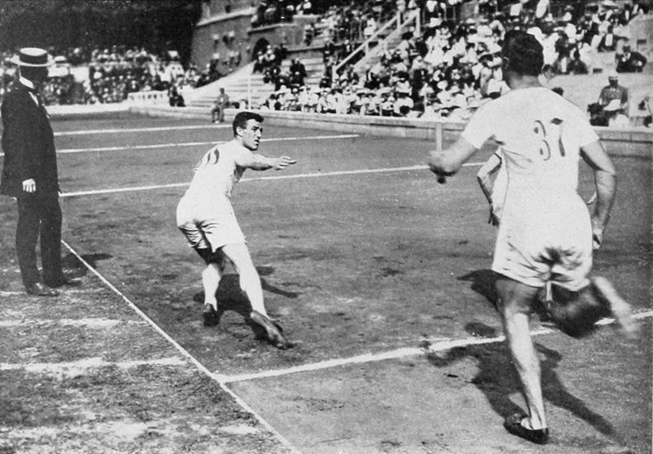 The final of the men's 4x400 metre relay at the 1912 Summer Olympics. Edward Lindberg passing over the baton to Ted Meredith.